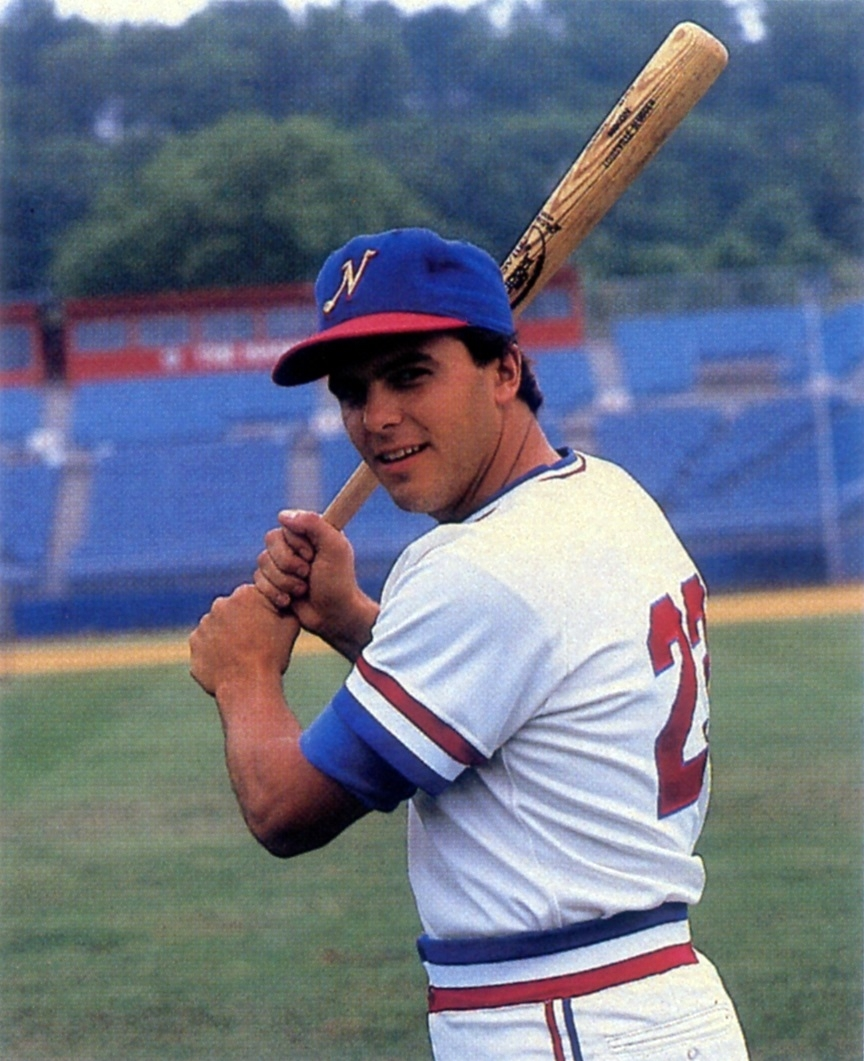 Outfielder Tom Dodd of the 1982 Nashville Sounds Minor League Baseball team of the Southern League